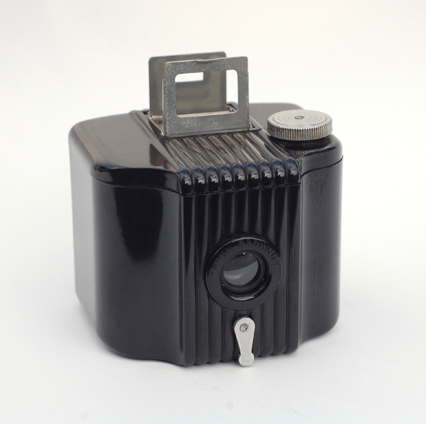 Very cute and popular bakelite camera made from 1934-41, designed by famed industrial designer Walter Dorwin Teague.